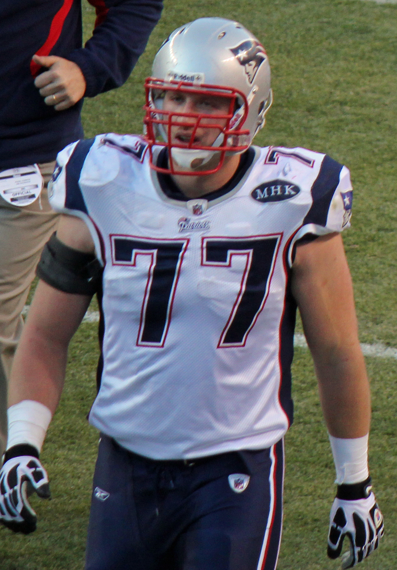 Nate Solder, a player on the National Football League.